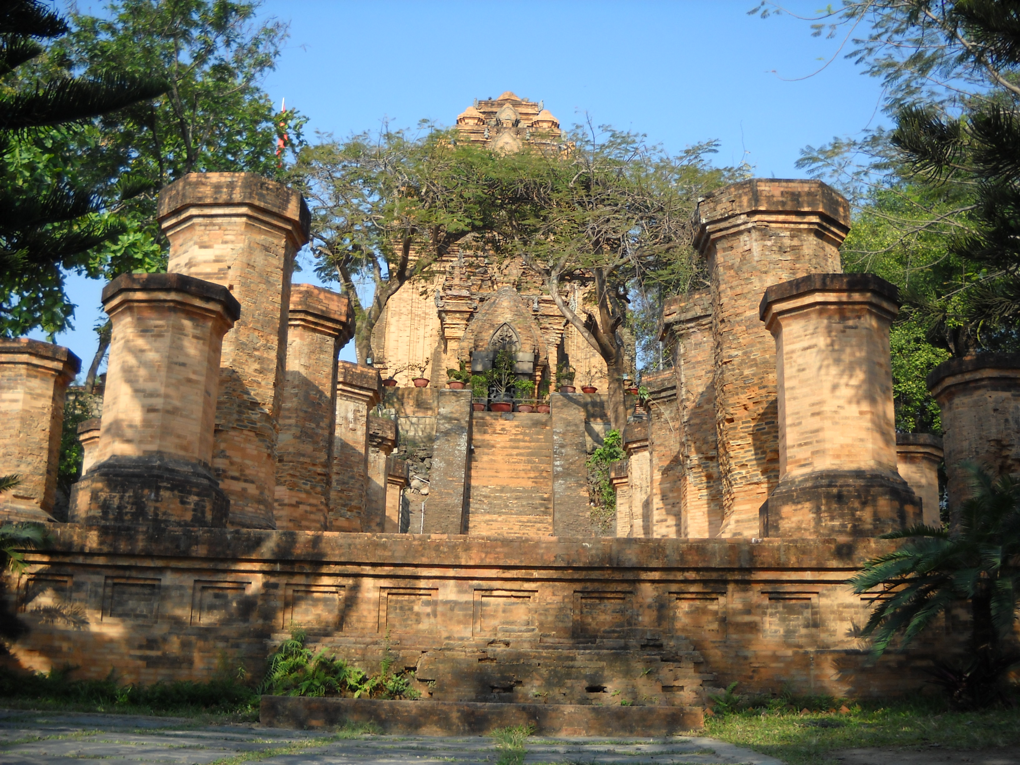 In Po Nagar